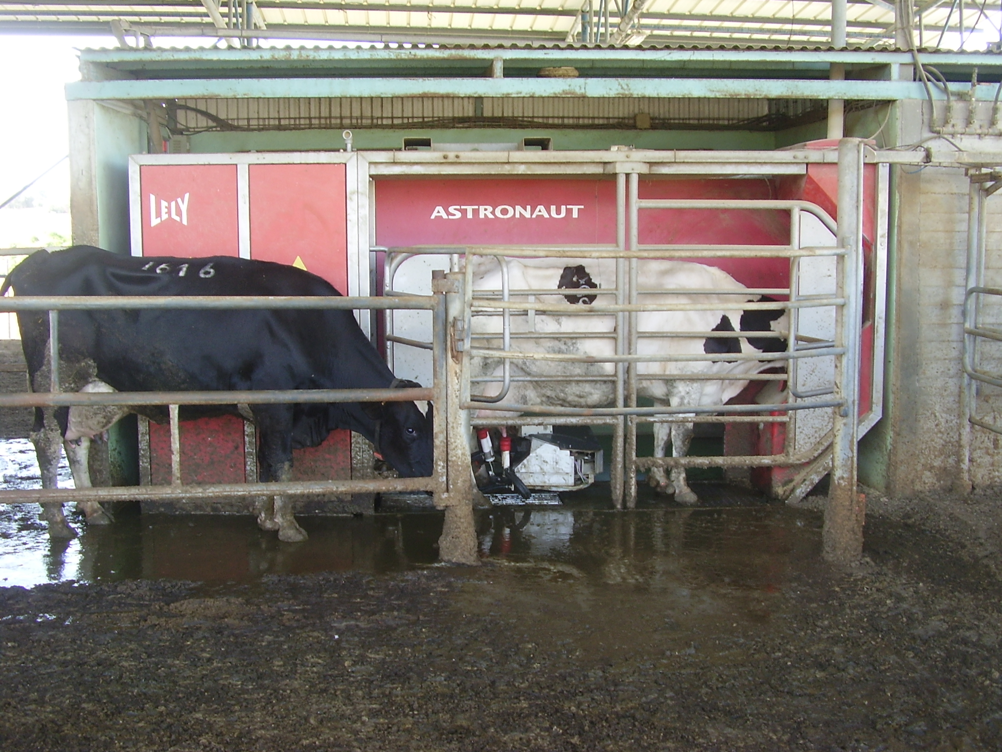 Automatic milking in Yavne'el, Israel